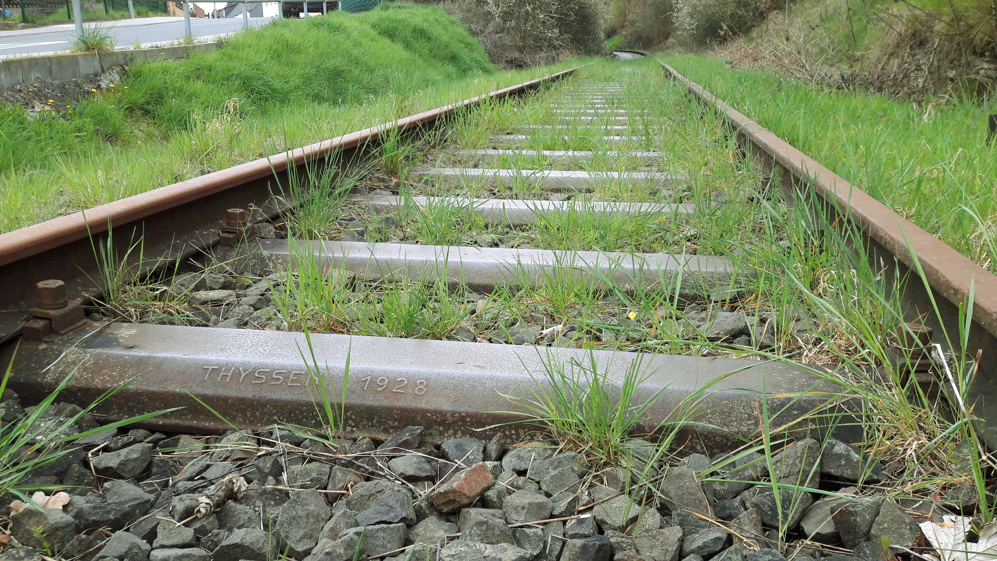 Steel sleepers made in 1928 of Aartalbahn, in Bleidenstadt, Germany